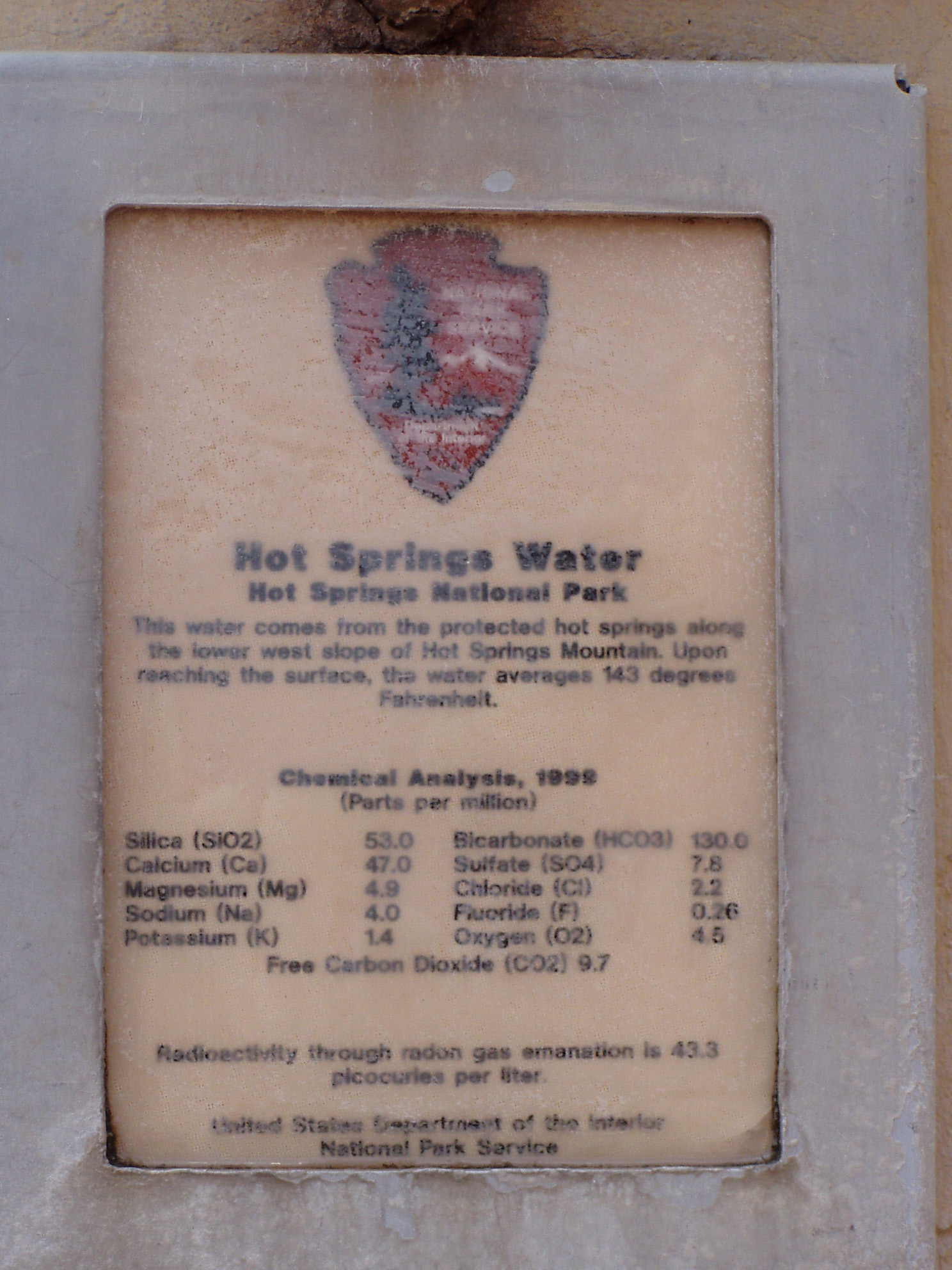 Hot Springs Water, Hot Springs National Park. This water comes from the protected hot springs along the lower west slope of Hot Springs Mountain. Upon reaching the surface, the water averages 143 °F (62 °C).